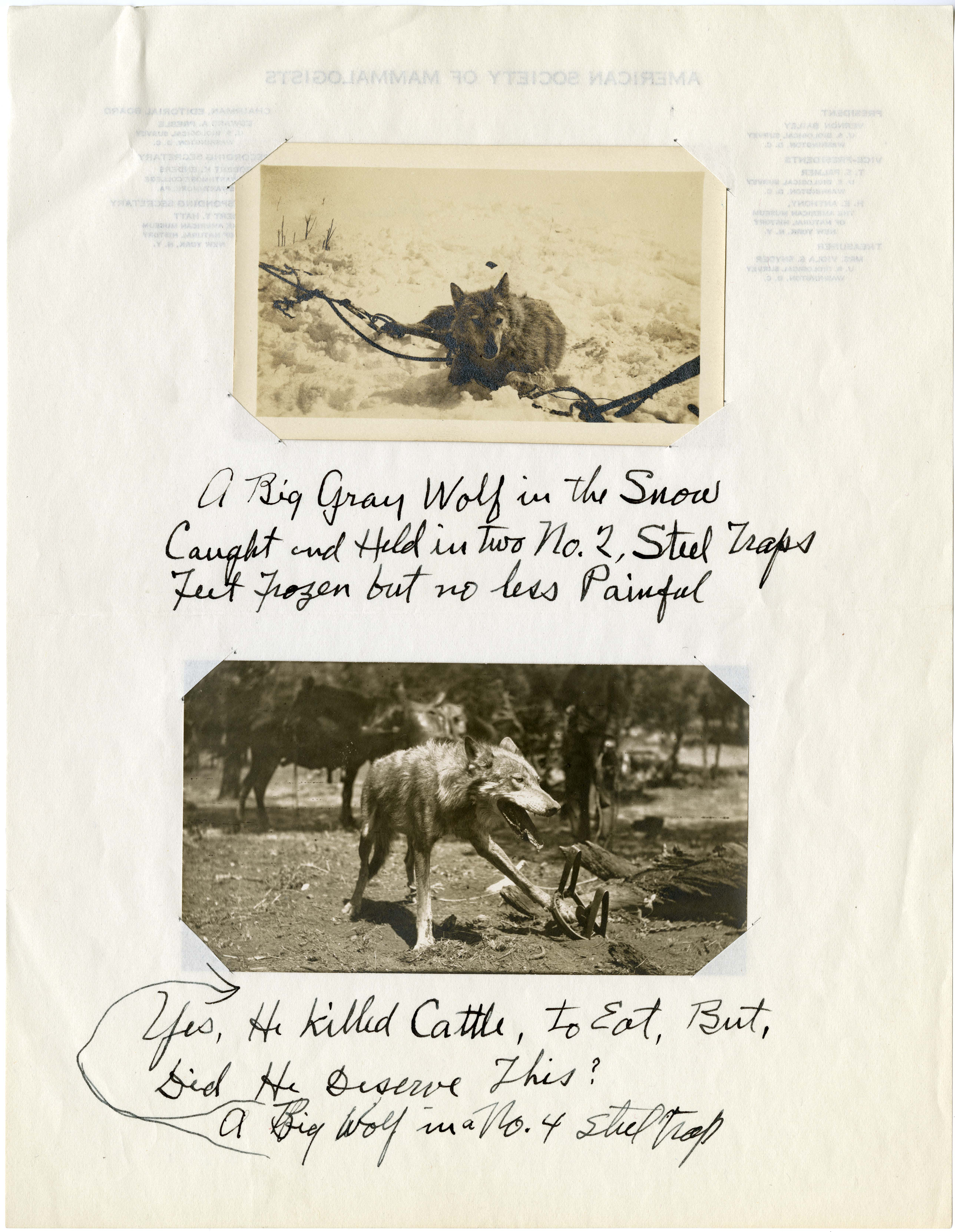 Creator: Clay Hunter and Don Stroenson Local number: SIA2011-1385 Summary: RU 007267, Box 5, Folder 12; Photograph taken for Vernon Orlando Bailey during his work as field naturalist for the United States Department of Agriculture Bureau of Biological Survey. Bailey was particularly interested in creating more humane animal traps and devoted much of his time after retirement to this cause. Dates: 1909-1918 Repository: Smithsonian Institution Archives Related blog post: Mammalogy at the Intersection of Mercy and Truth View more collections from the Smithsonian Institution. .